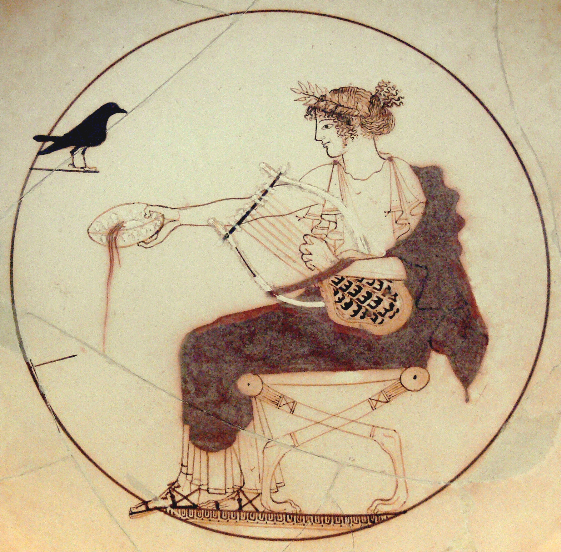 Apollo wearing a laurel or myrtle wreath, a white peplos and a red himation and sandals, seating on a lion-pawed diphros; he holds a kithara in his left hand and pours a libation with his right hand. Facing him, a black bird identified as a pigeon, a jackdaw, a crow (which may allude to his love affair with Coronis) or a raven (a mantic bird). Tondo of an Attic white-ground kylix attributed to the Pistoxenos Painter (or the Berlin Painter, or Onesimos). Diam. 18 cm (7 in.). From a tomb (probably that of a priest) in Delphi. Archaeological Museum of Delphi, Inv. 8140, room XII.